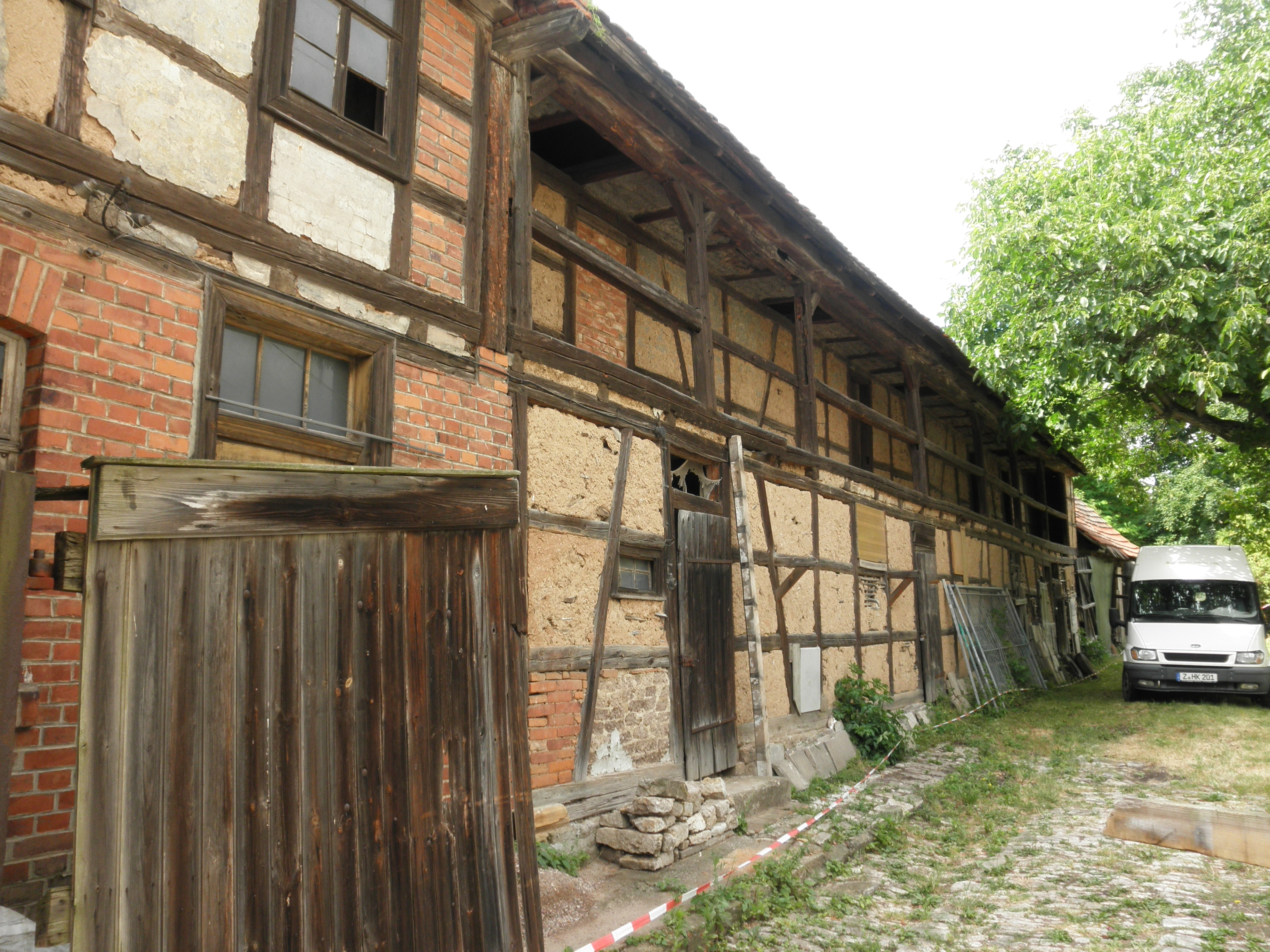 Barn of the rectory in Udestedt (Thuringia)